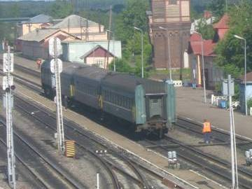 Sonkovo, the train in railway station (Russia)